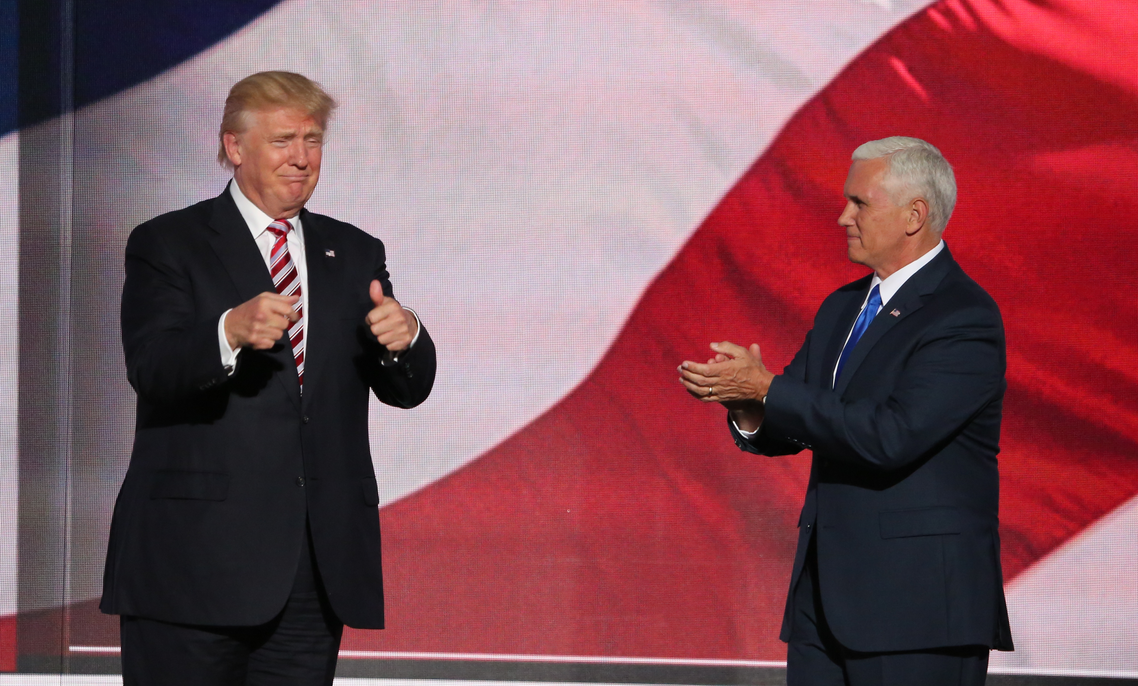 Republican presidential nominee Donald Trump, left, gives his running mate, Indiana Governor Mike Pence, a thumbs up after Pence addressed the Republican National Convention. (A. Shaker/VOA)